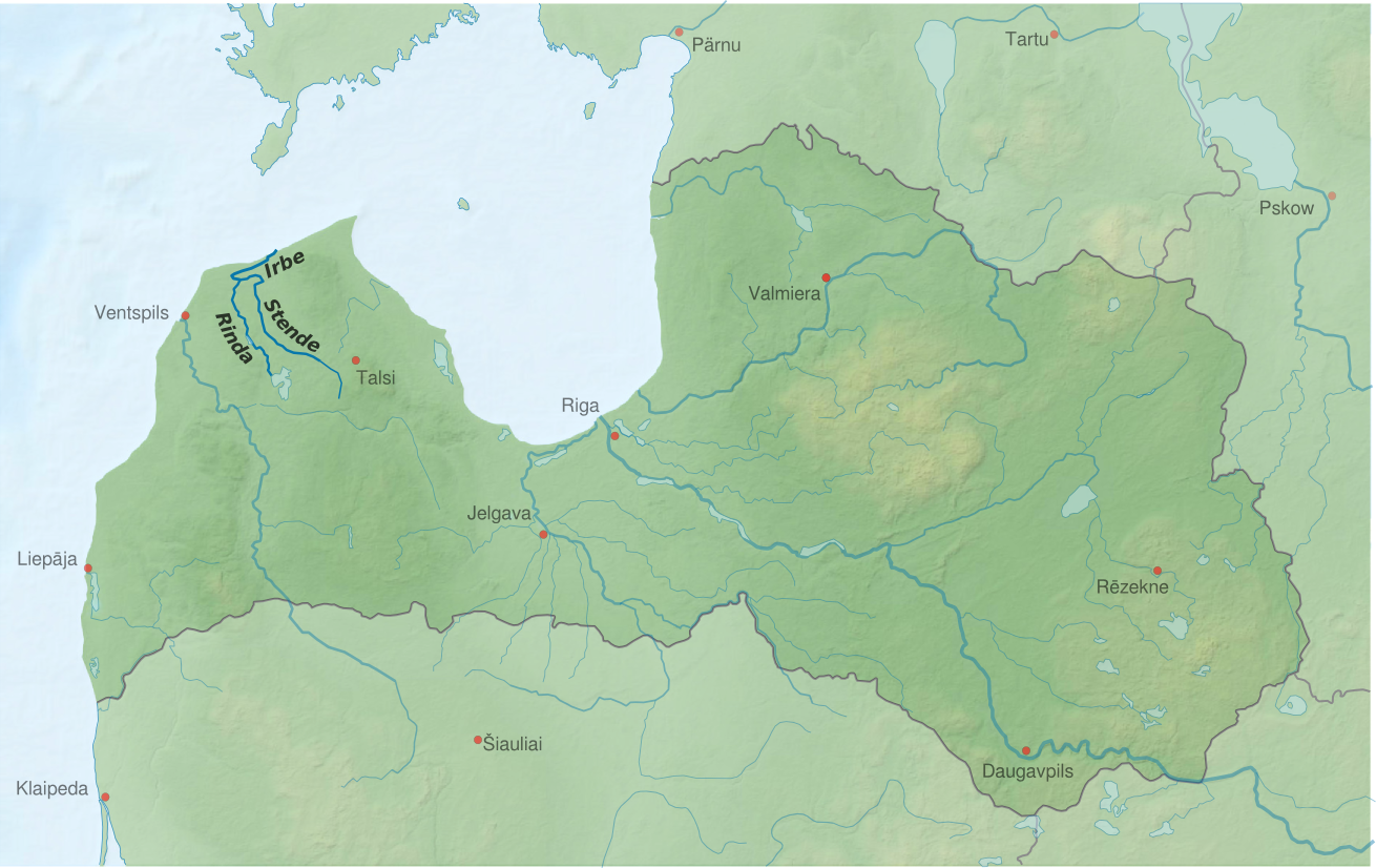 Map of the rivers Rinda, Stende and Irbe in Latvia based on relief-location maps by users: NNW, Виктор В, Alexrk2, Chumwa, Karlis